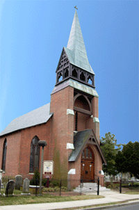 Photo of St. Paul's Church in Georgetown, DE